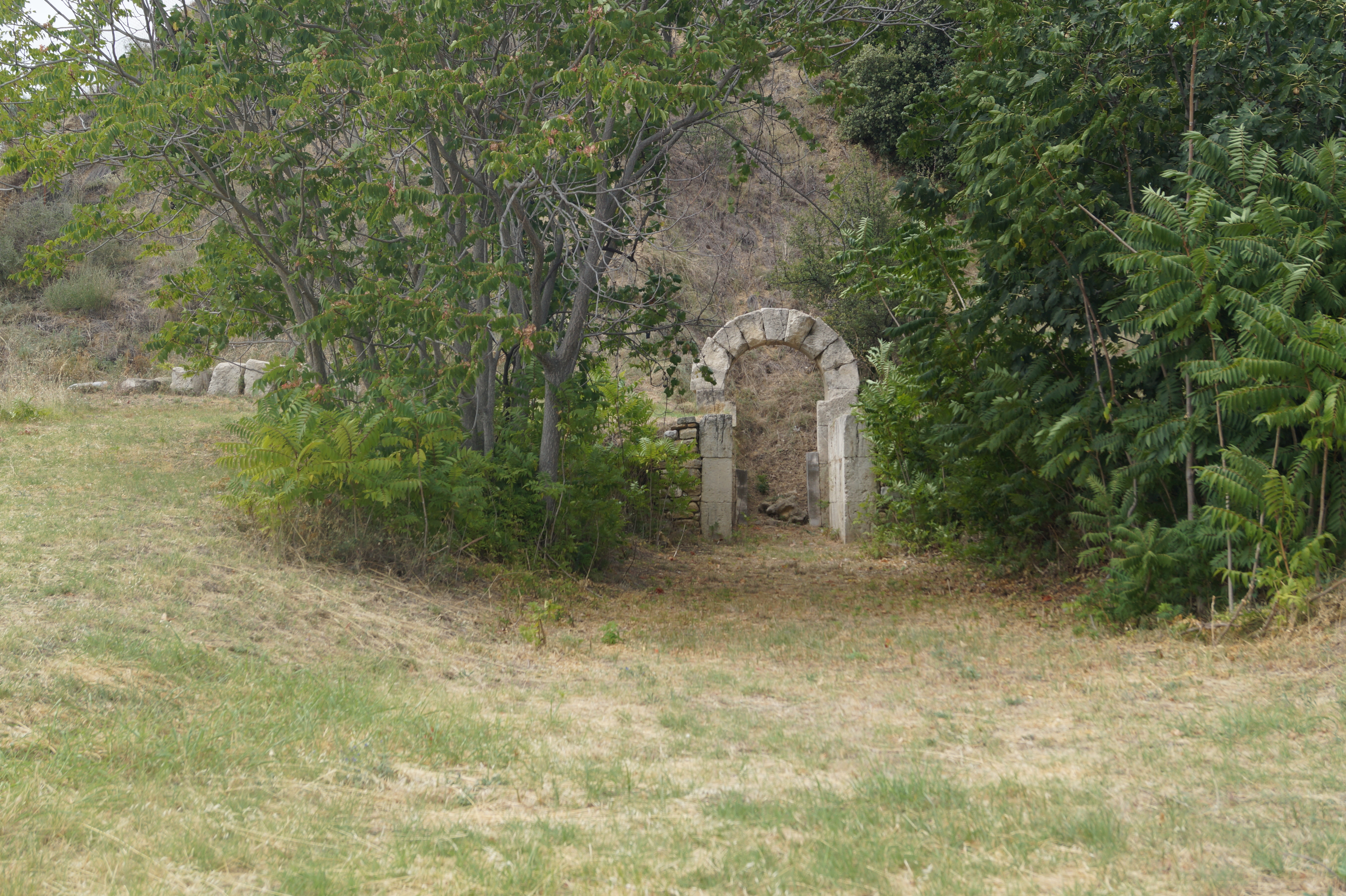 Sykia, Makedonia, Greece: Entrance of Macedonian Tomb 1 in Sykia.